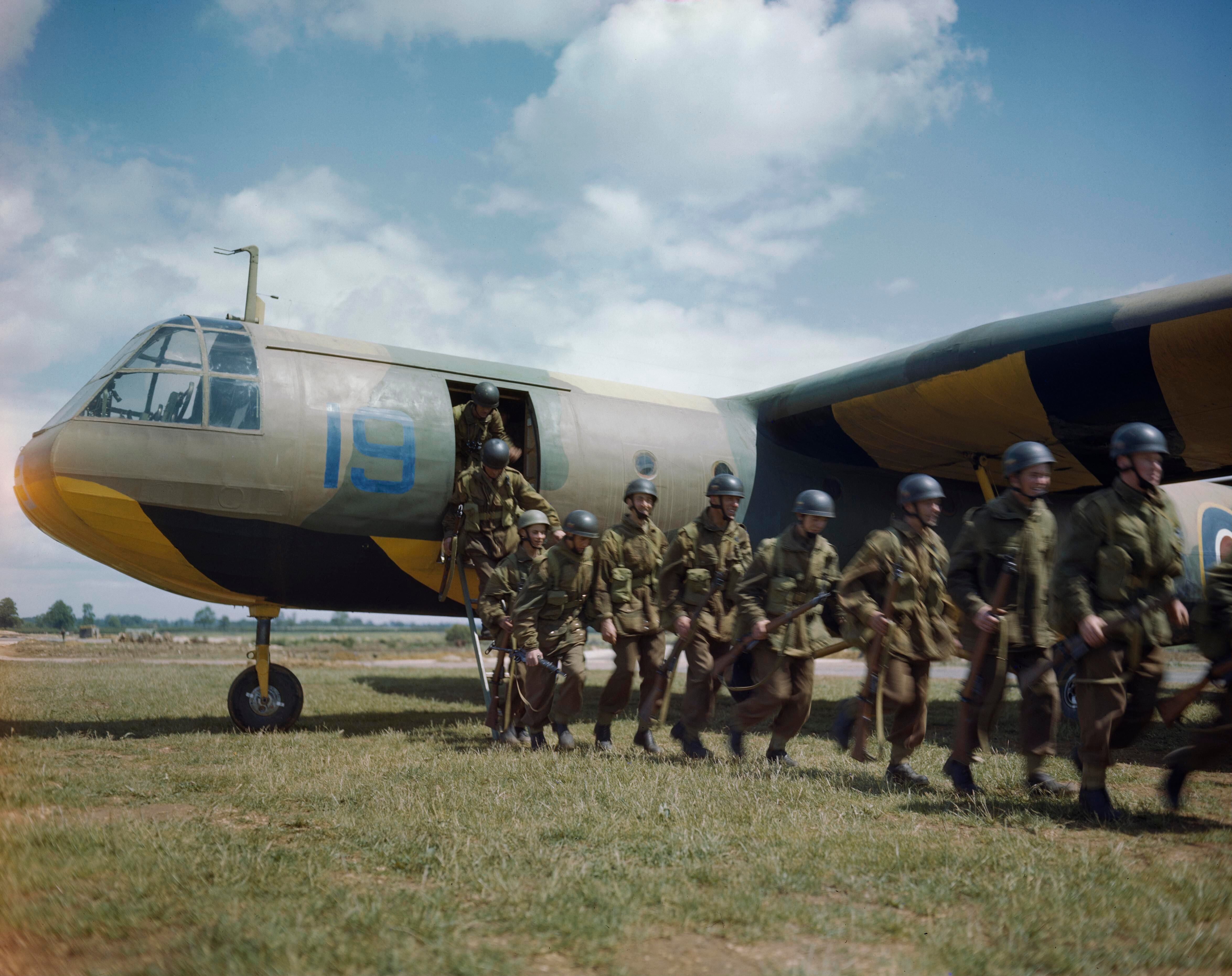 Paratroops leaving an Airspeed Horsa Glider DP288, a training aircraft of No 21 Heavy Glider Conversion Unit at Brize Norton. The paratroops were taking part in a Press Facility Day exercise.